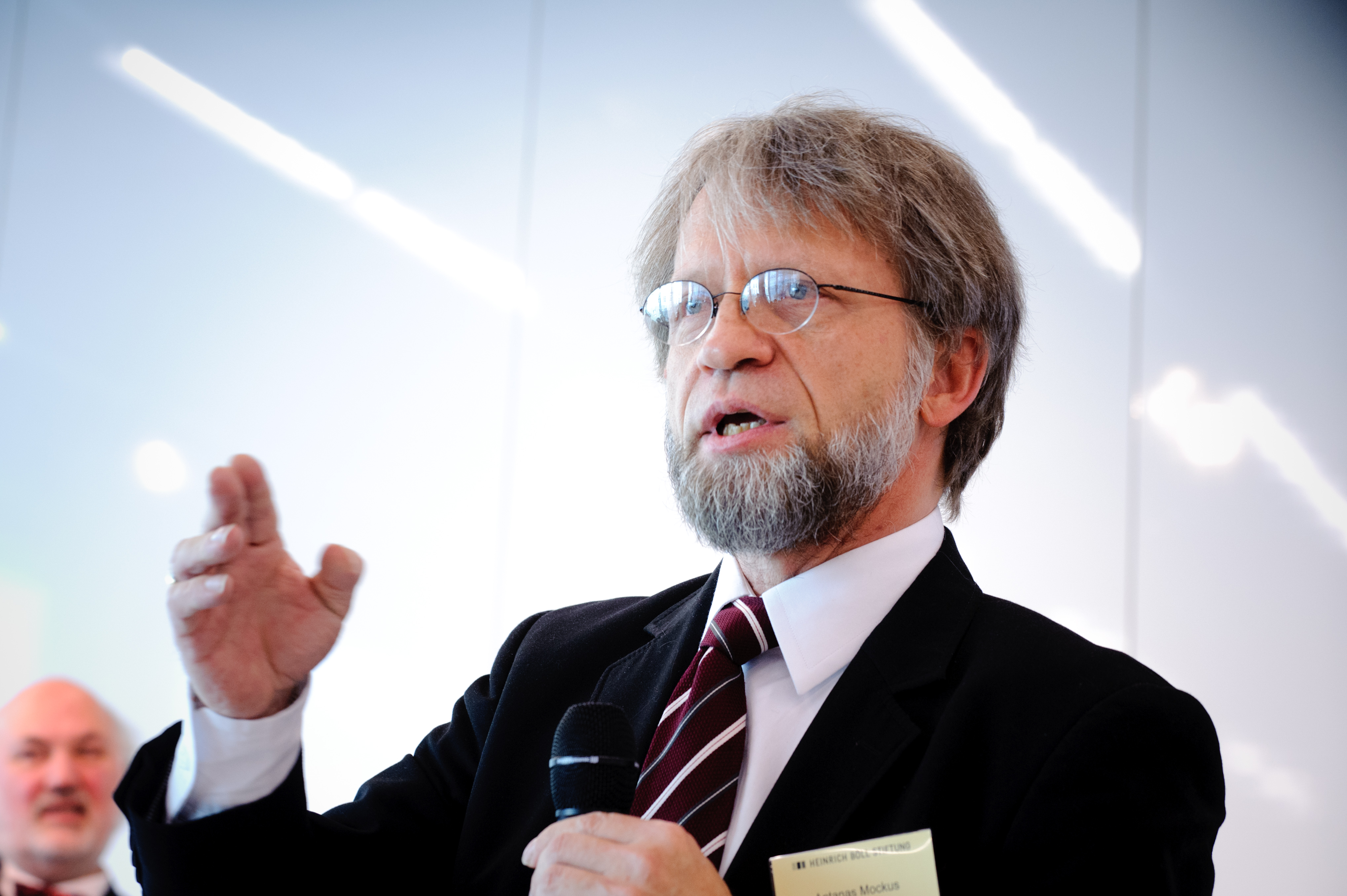 Antanas Mockus (Former mayor of Bogota, Colombia) radius of art - Konferenz Foto: Stephan Röhl